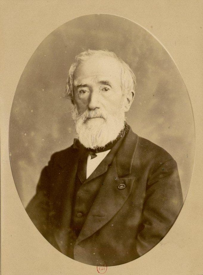 Picture depicting Henri Labrouste